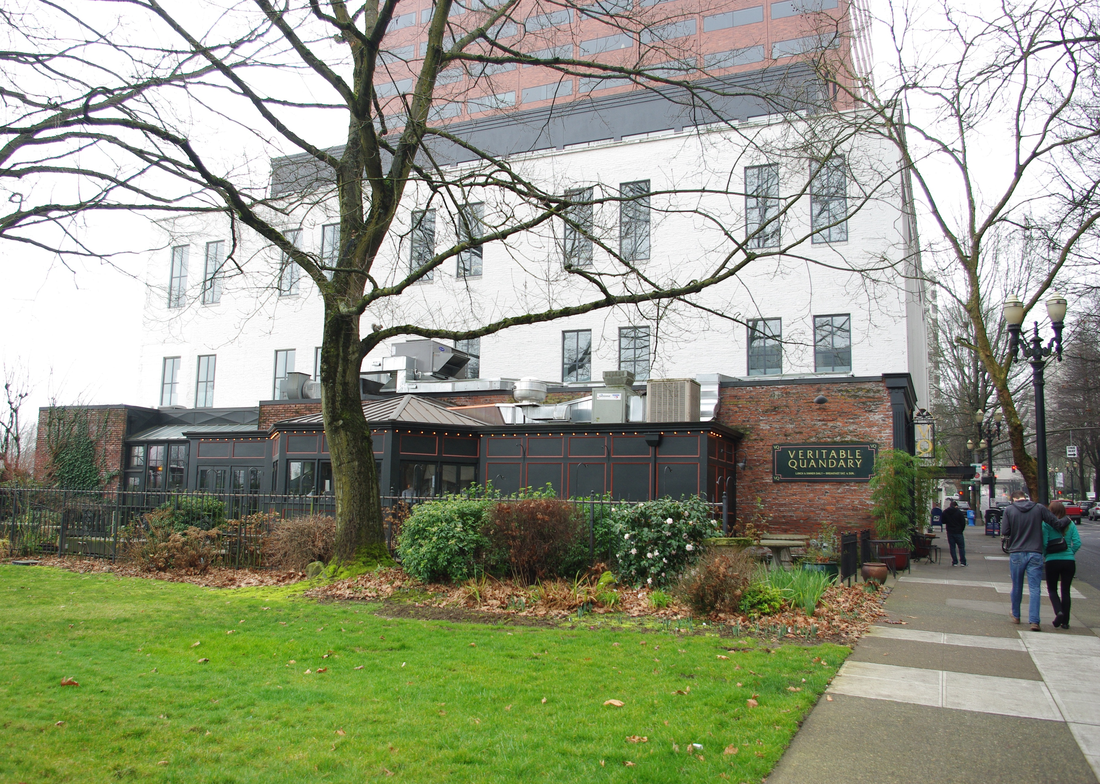 The Veritable Quandry restaurant in downtown Portland, Oregon.